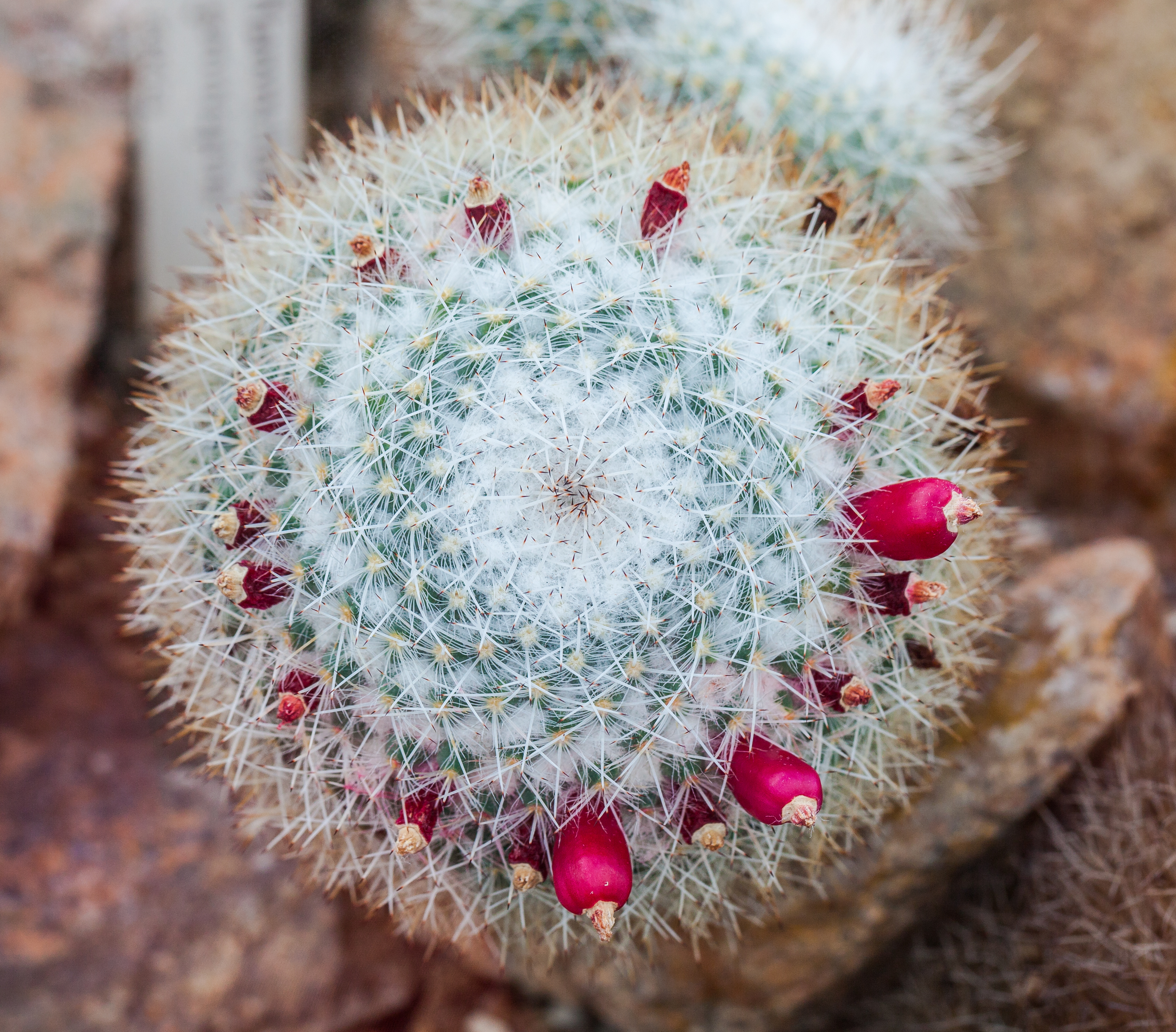 Mammillaria geminispina, Munich Botanical Garden, Germany